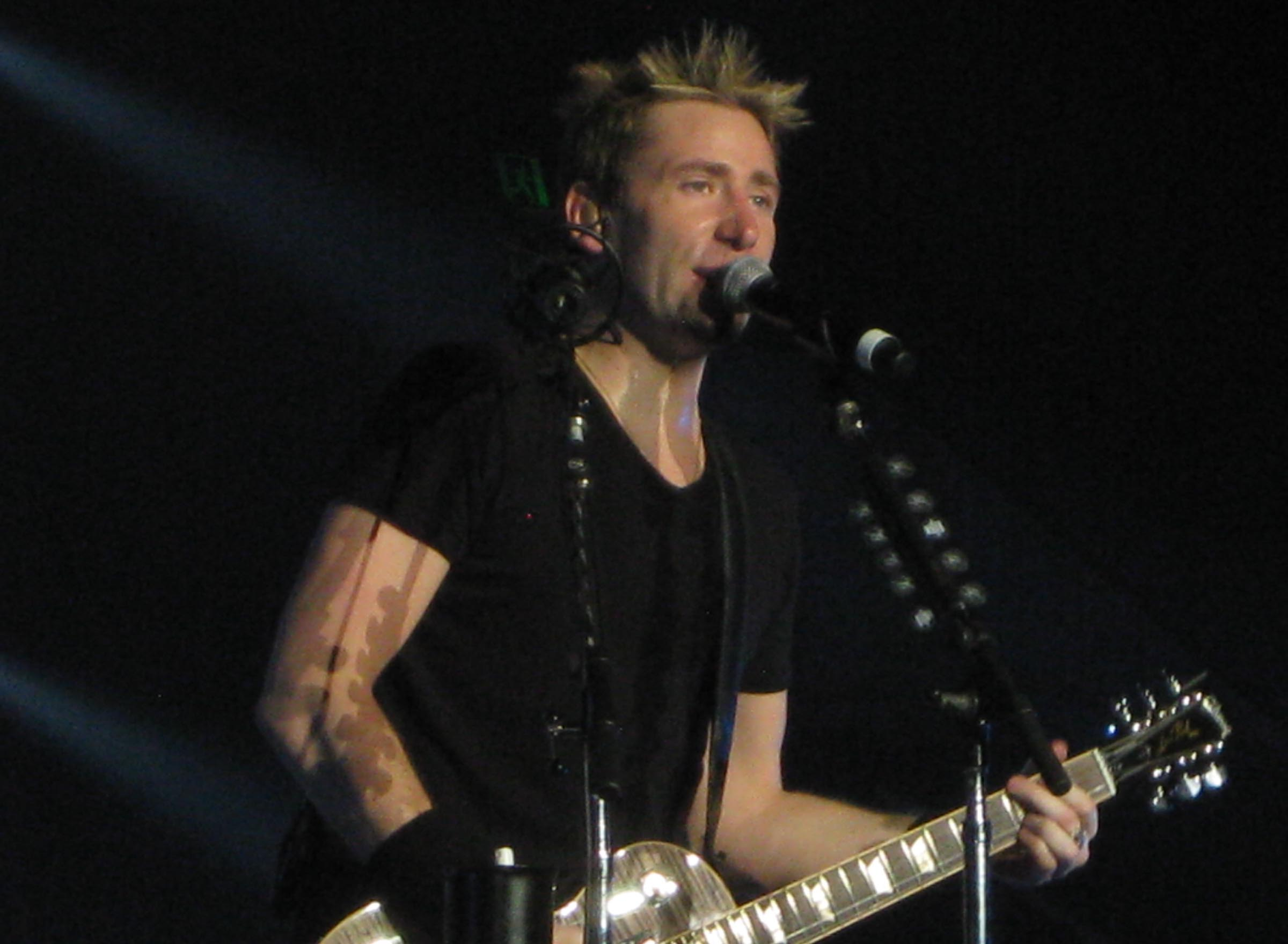 Chad Kroeger in Brisbane, November 2012 - Here And Now Tour